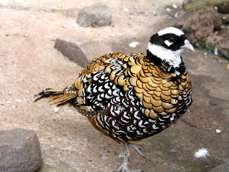 Reeves's Pheasant (Syrmaticus reevesii) in captivity in the Parrot's Garden, Jardim dos Louros, in the Botanical Garden of Funchal, Madeira island, Portugal.